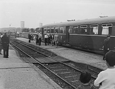 Last train in Ratheim